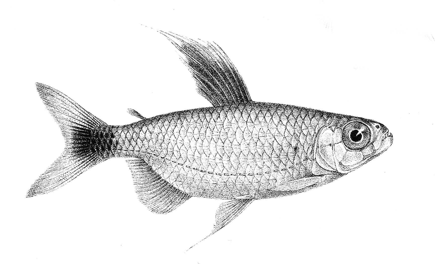 Brycinus intermedius